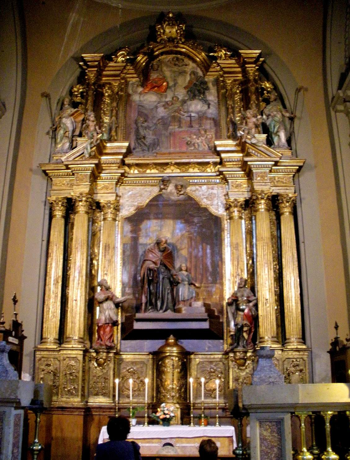 Retablo de la Capilla de San Joaquín, Basílica del Pilar de Zaragoza